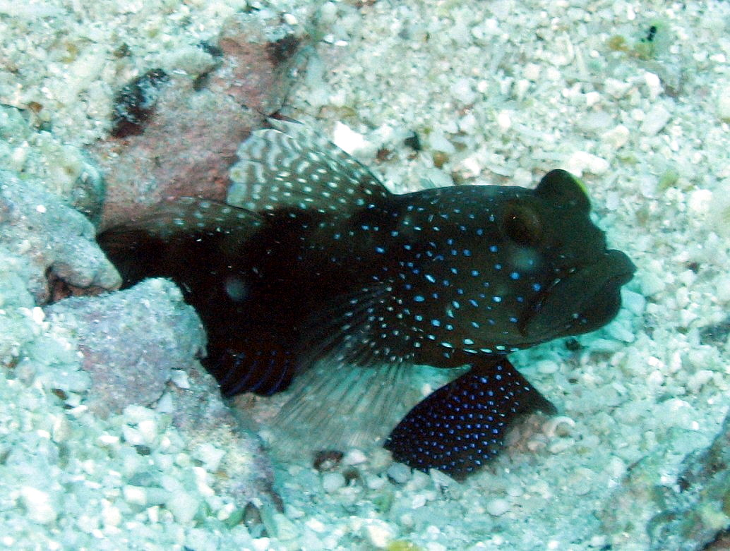 Y-bar shrimp goby (Cryptocentrus fasciatus) Category:Perciformes images